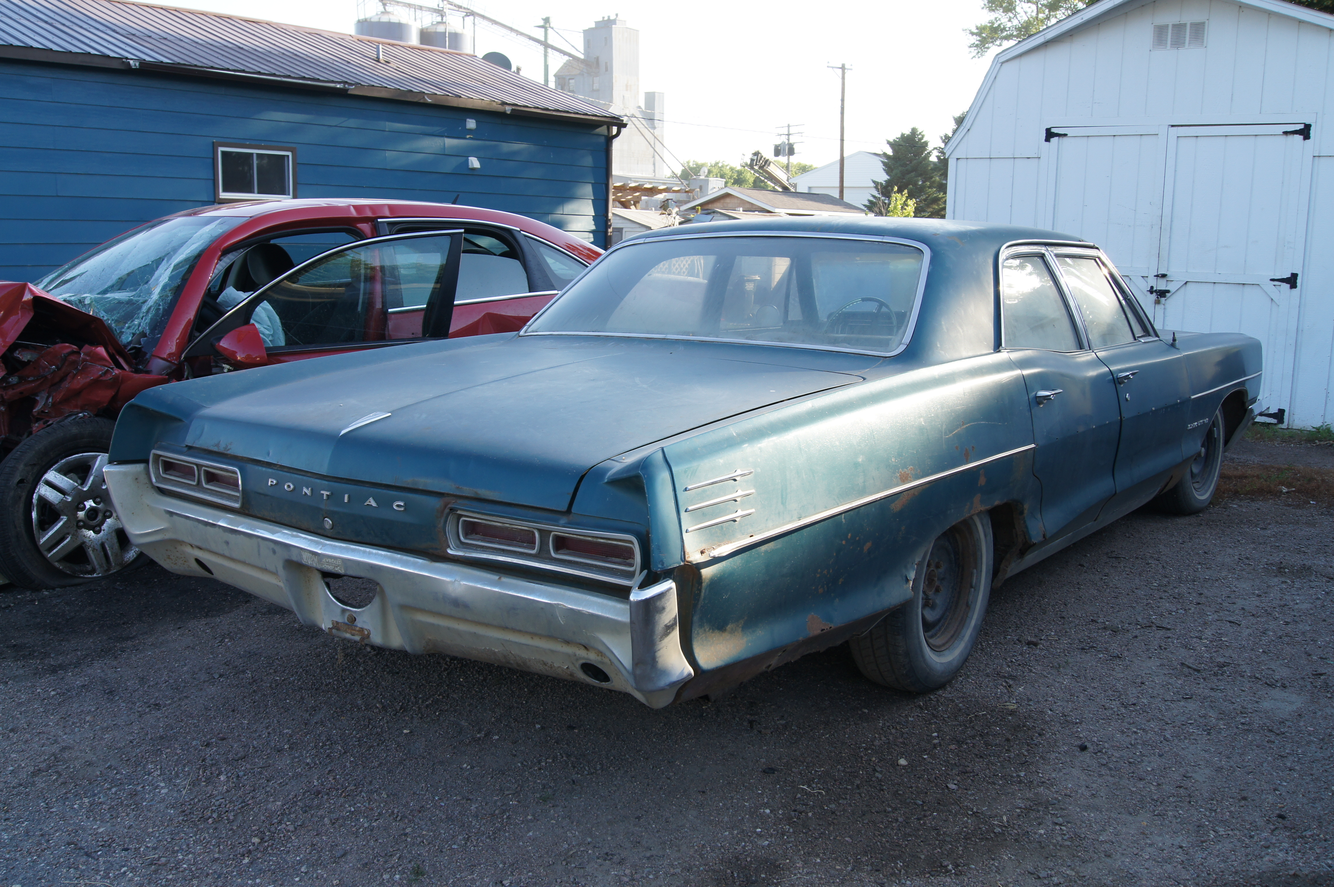 My Niece had a car accident near the intersection of Kandiyohi County roads 8 & 3.